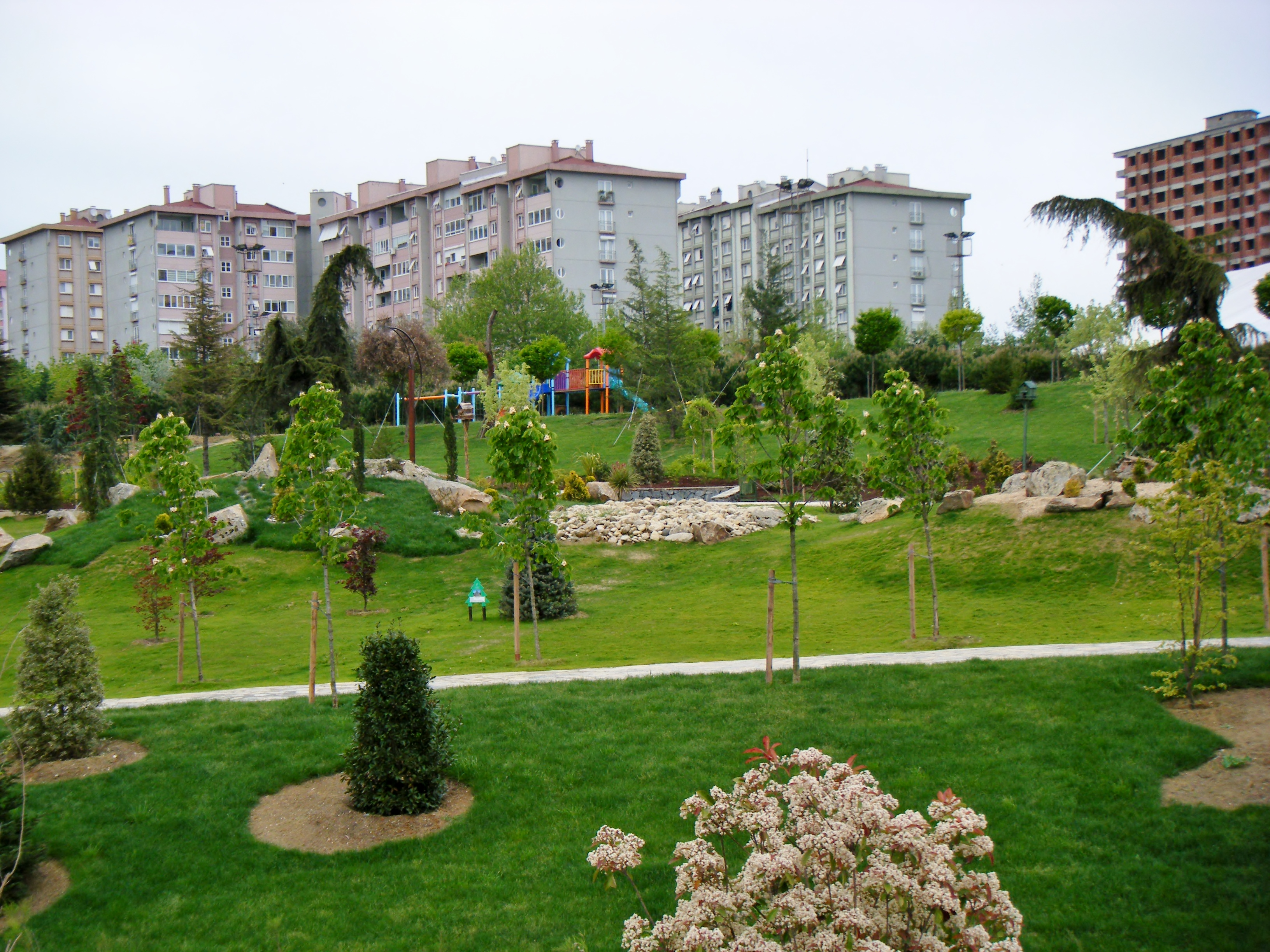 Beylikduzu Green Valley Botanical City Park. Beylikduzu district of Istanbul. Istanbul green spaces, regions, areas. Beylikduzu urbanisation planned, well, organized, organised.